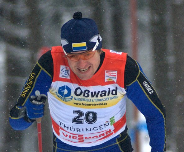 Roman Leybyuk at the Tour de Ski 2010 in Oberhof